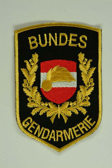 This image is in the public domain according to Austrian copyright law because it is part of a law, ordinance or official decree issued by an Austrian federal or state authority, or because it is of predominantly official use. (§7 UrhG) To uploader: Please provide where the image was first published and who created it. Gendarmerie - Abzeichen